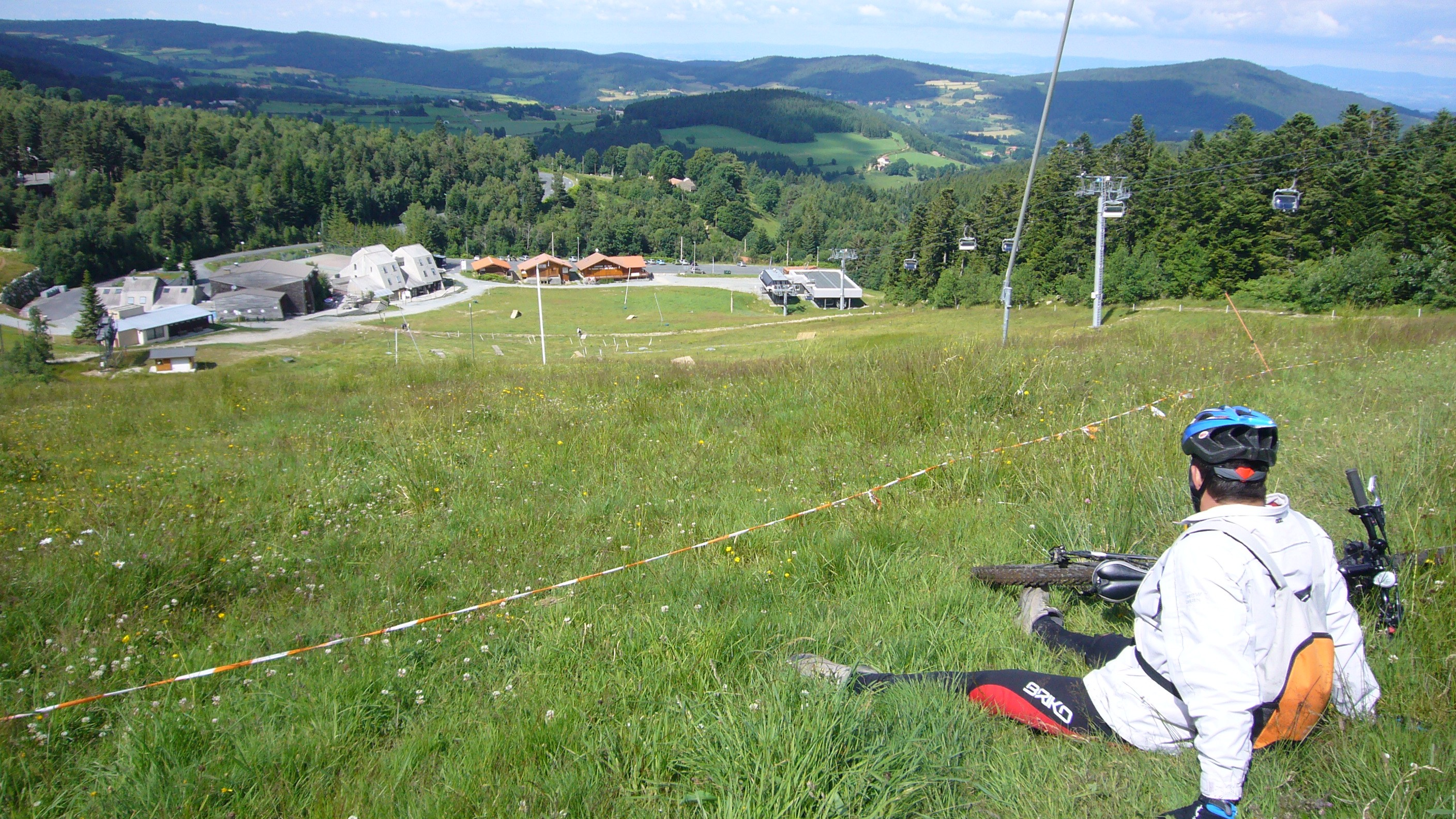 Chalmazel bikepark and lift